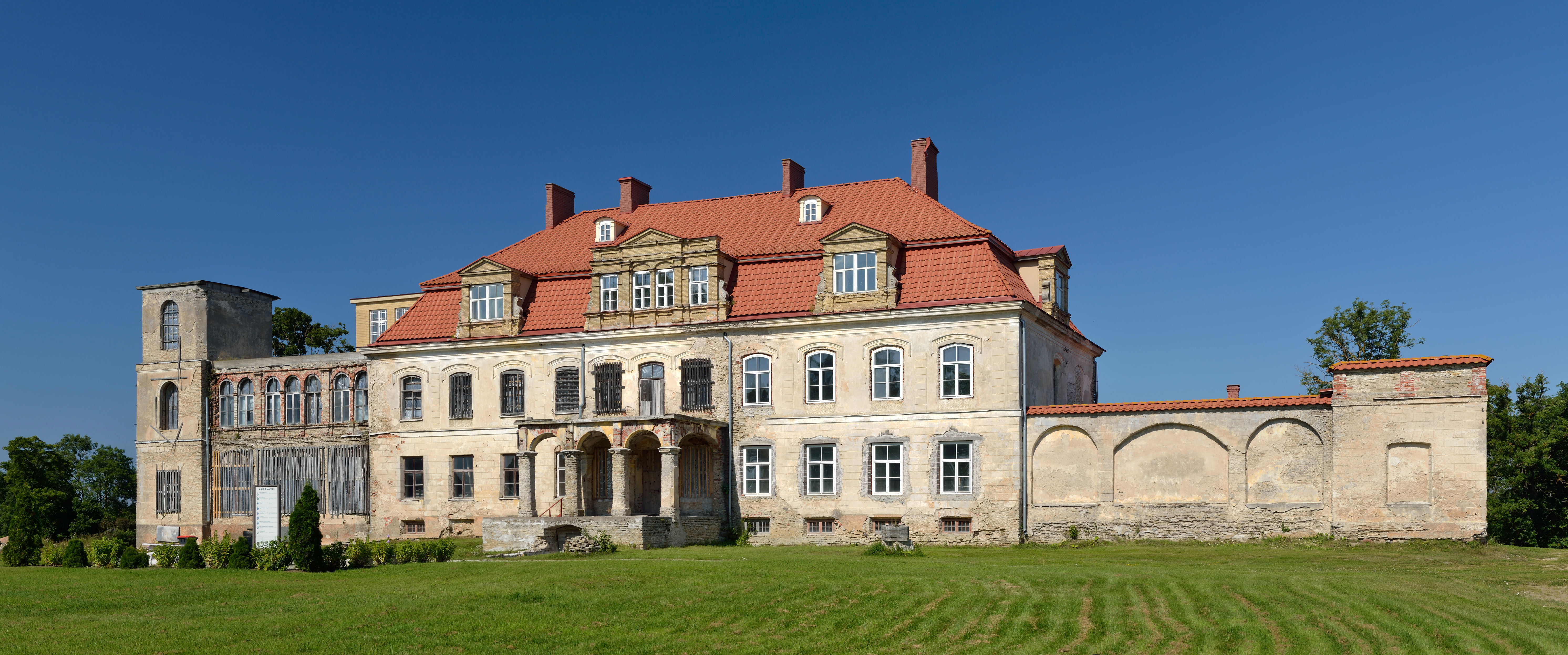 Malla manor main building, built in 1883